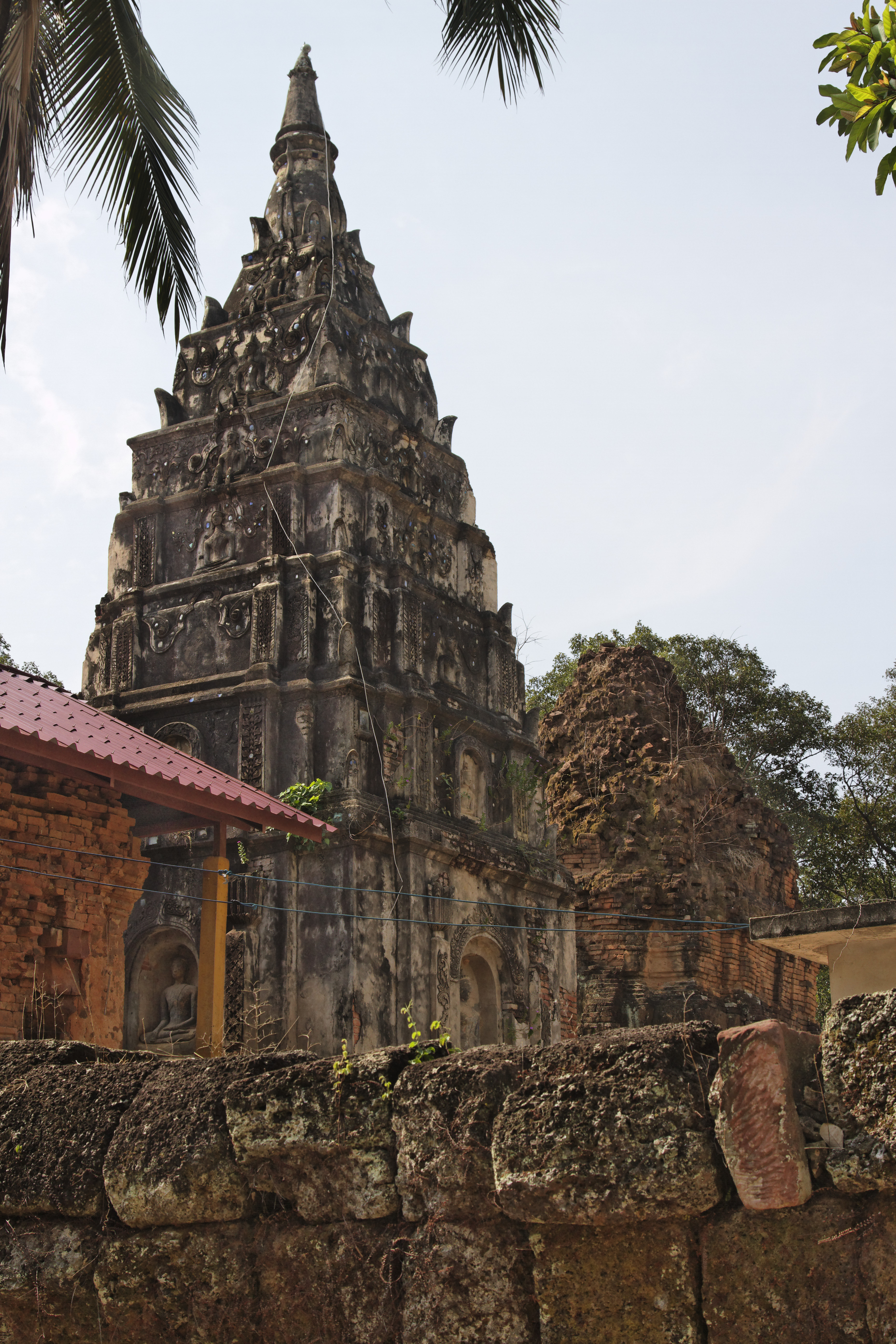 Ku Phra Kona is a khmer temple located in the province of Roi Et